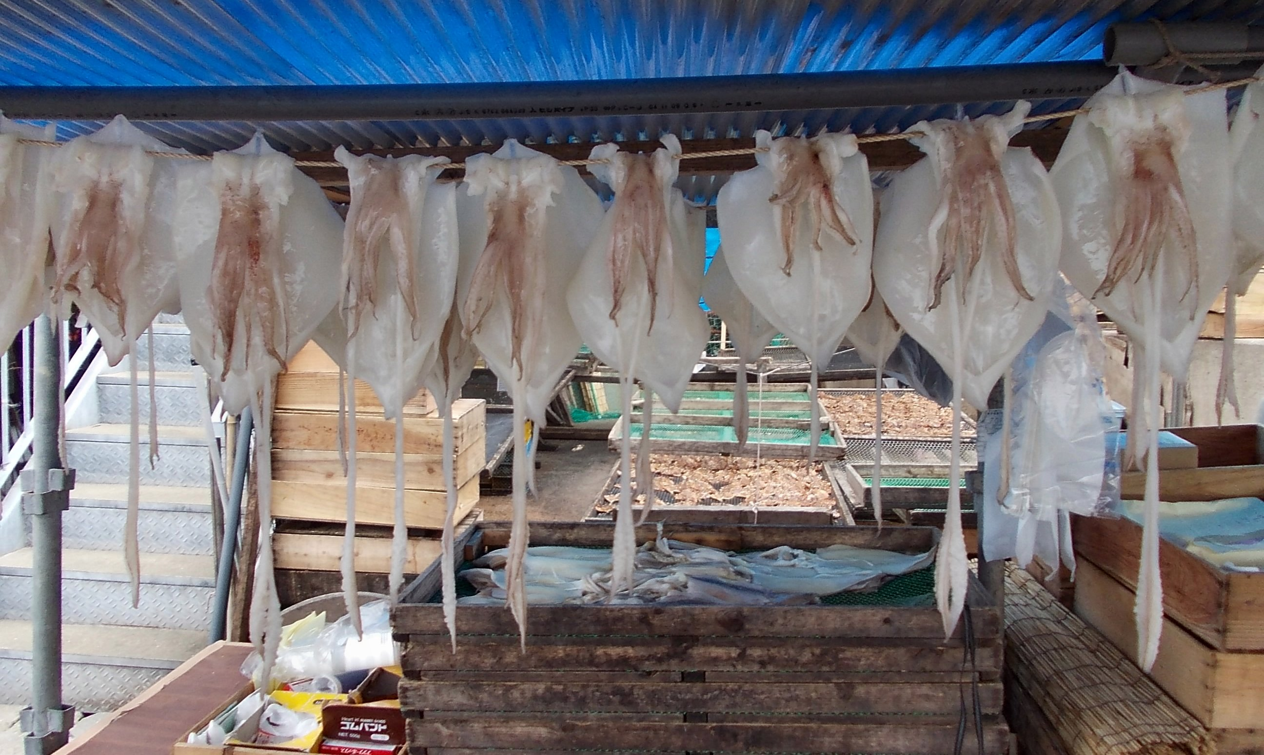 Yobuko Squid Drying